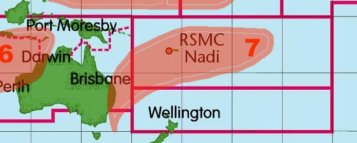 Zoom on the Fiji Tropical cyclones warning responsability regions in the South Pacific.